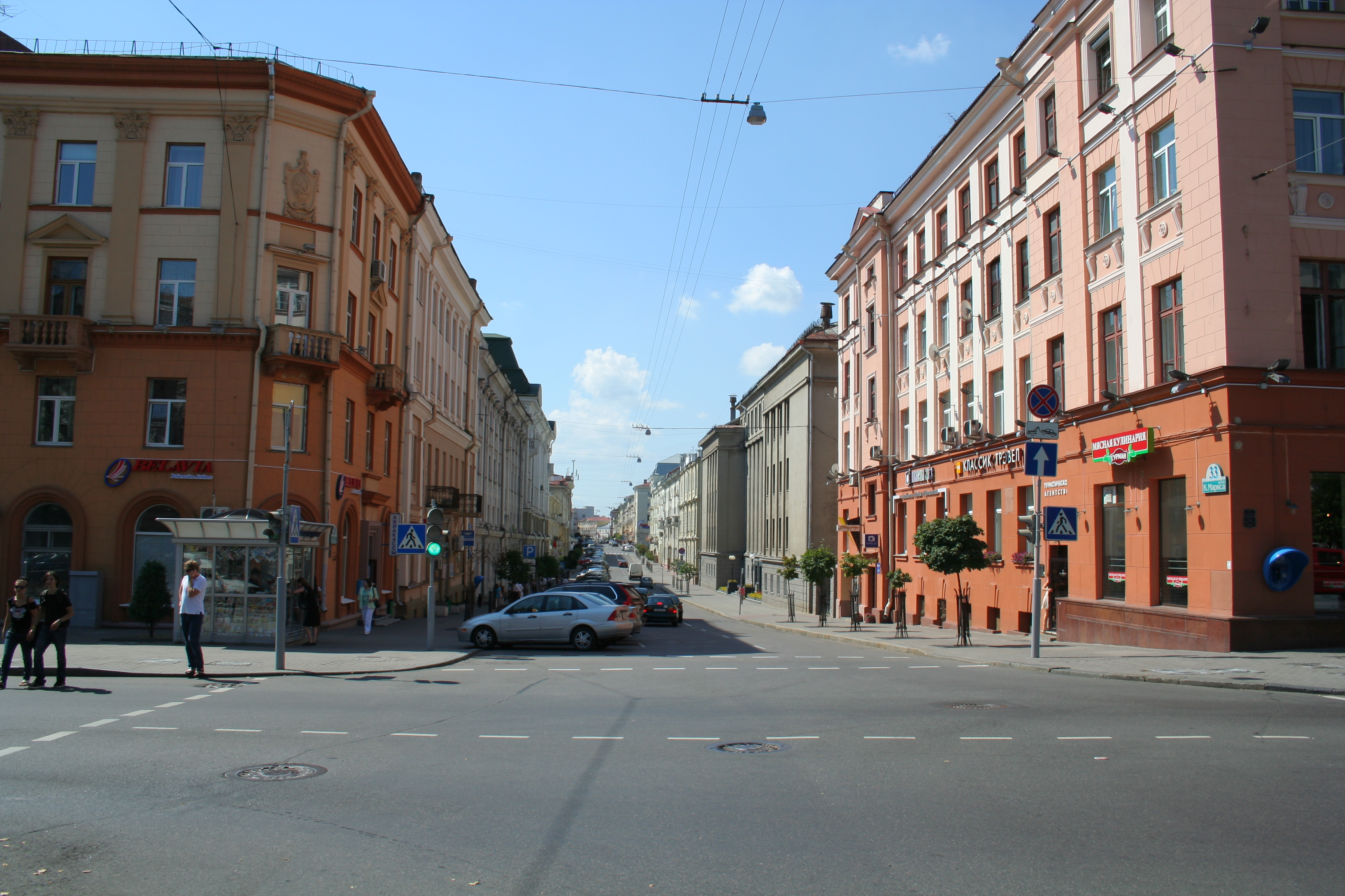 Views of Minsk (Belarus). Karl Marx Street.